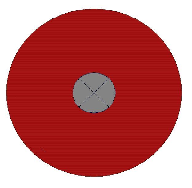 Shield pattern of the Secunda Flavia Constantiniana, listed 30th of the 32 legiones comitatenses units in the Magister Peditum's infantry roster.